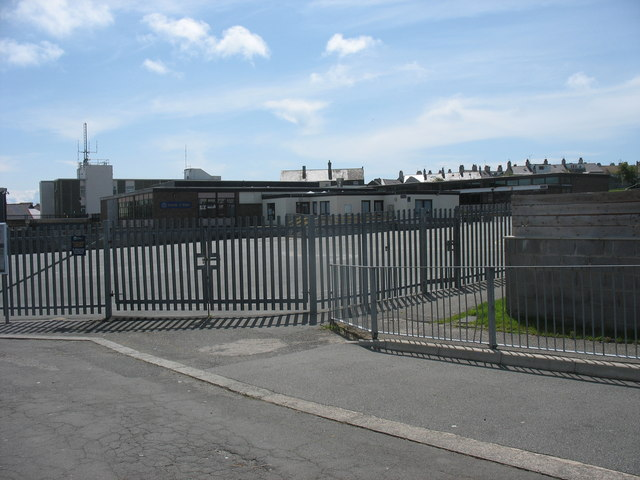 Ysgol y Parc Primary School, off Newry Fields, Holyhead